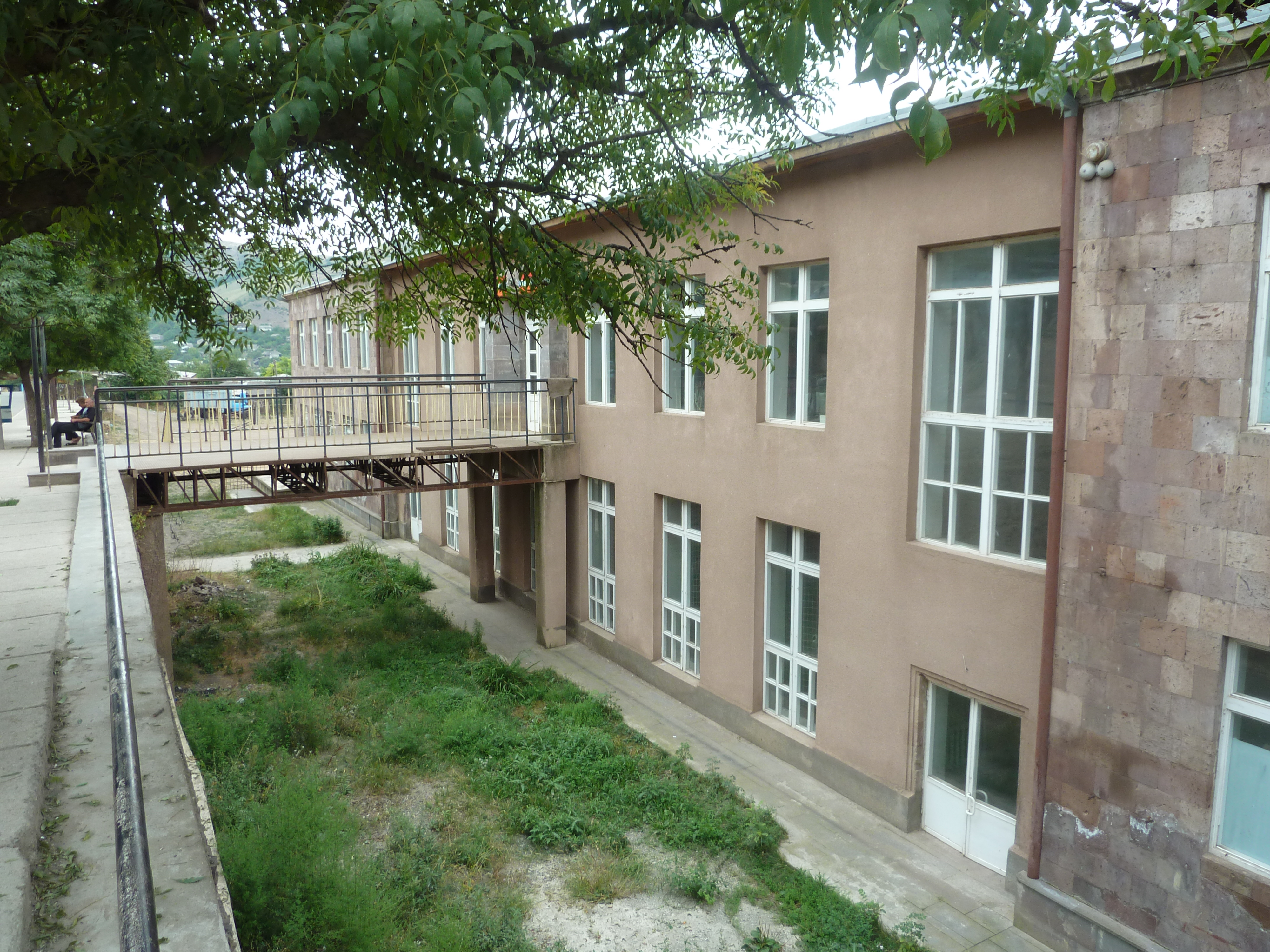 The secondary school of Movses village in Tavush province of Armenia.